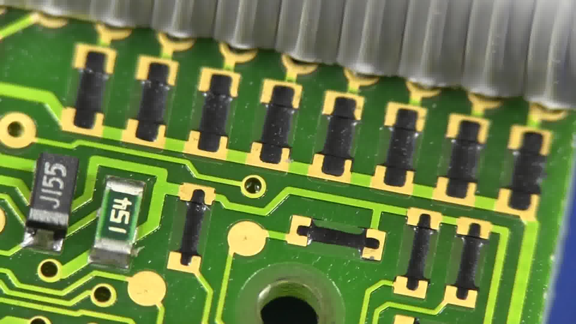 Carbon Printed Resistors on standard SMD restor pads on a PCB from 1989, inside a Psion II Organiser